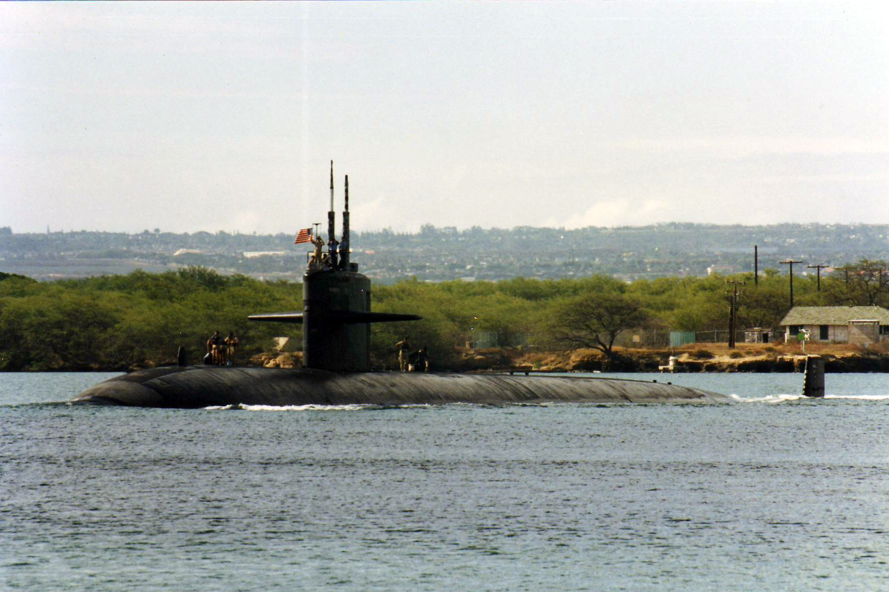 Uss Buffalo departing Pearl Harbor Hawaii for WestPac 1995